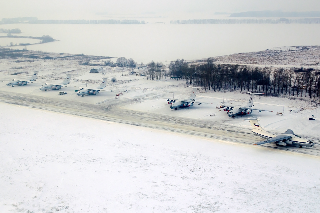 Ryazan - Dyagilevo. Russia - Air Force More: Ilyushin Il-78